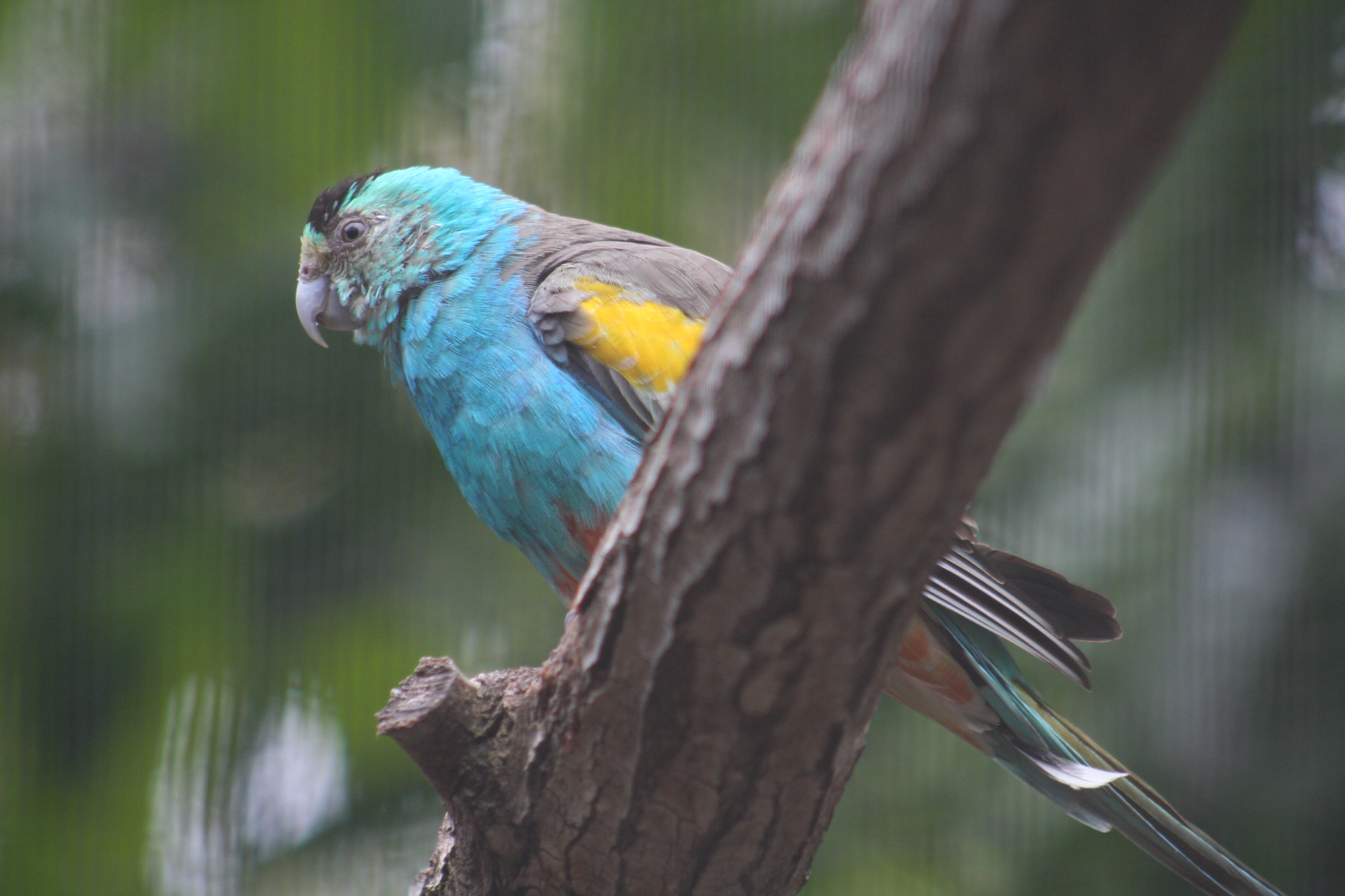 A male Golden-shouldered Parrot at Lone Pine Koala Sanctuary, Brisbane, Queensland, Australia.